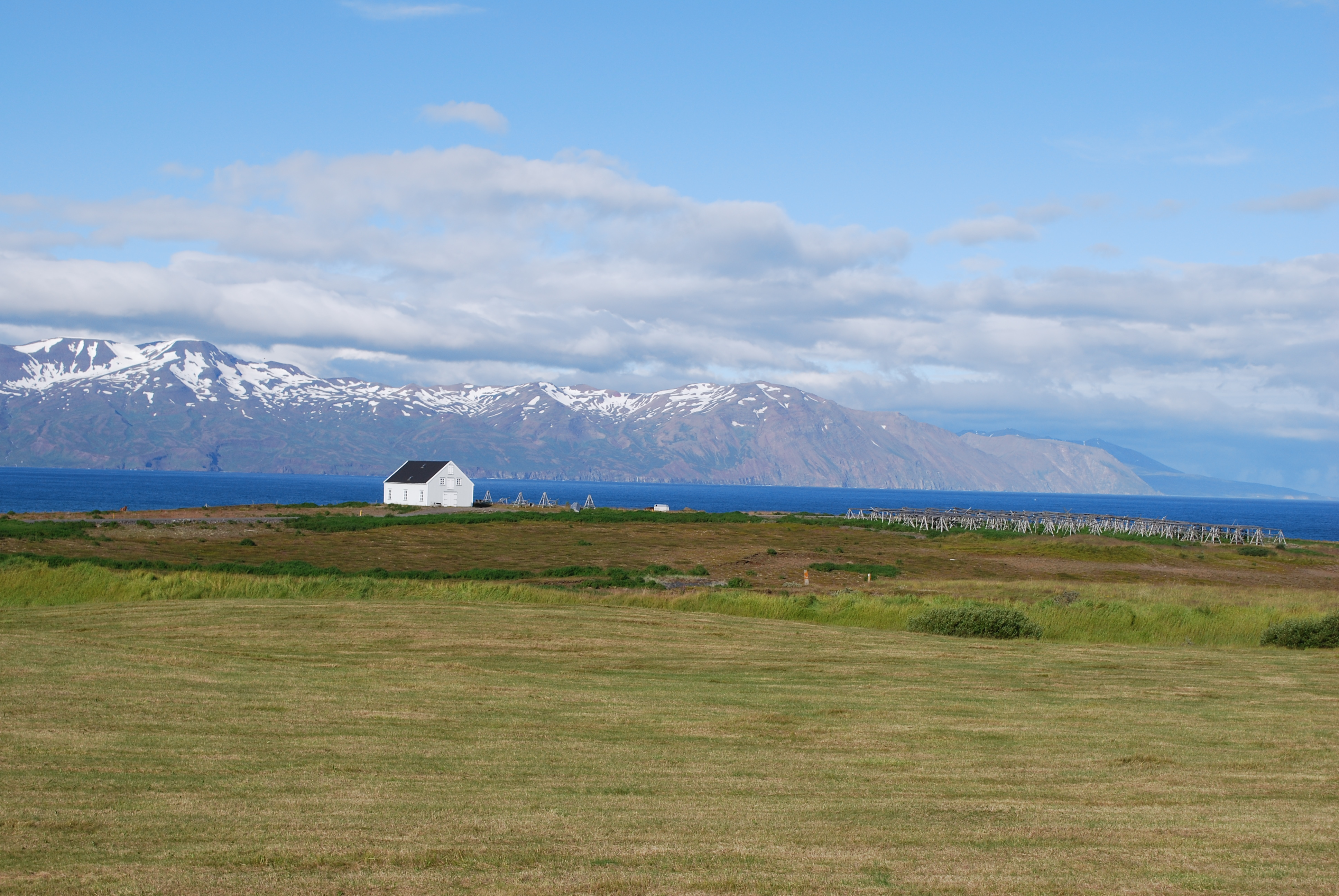 Landscape near Húsavík, Iceland